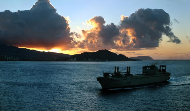 The Military Sealift Command medium, large roll-on/roll-off ship USNS Pililaau (T-AKR 304) passes Diamond Head Crater in Honolulu, Hawaii, July 12, 2008. Pililau is transporting U.S. Soldiers from 3rd Brigade Combat Team, 25th Infantry Division and equipment from 45th Sustainment Brigade, 8th Theater Sustainment Command from Hawaii to Camp Pendleton, Calif, in support of Joint Logistics Over-the-Shore (JLOTS) 2008. The joint exercise tests the military's ability to transfer war fighting and humanitarian equipment to shore from ships at sea.